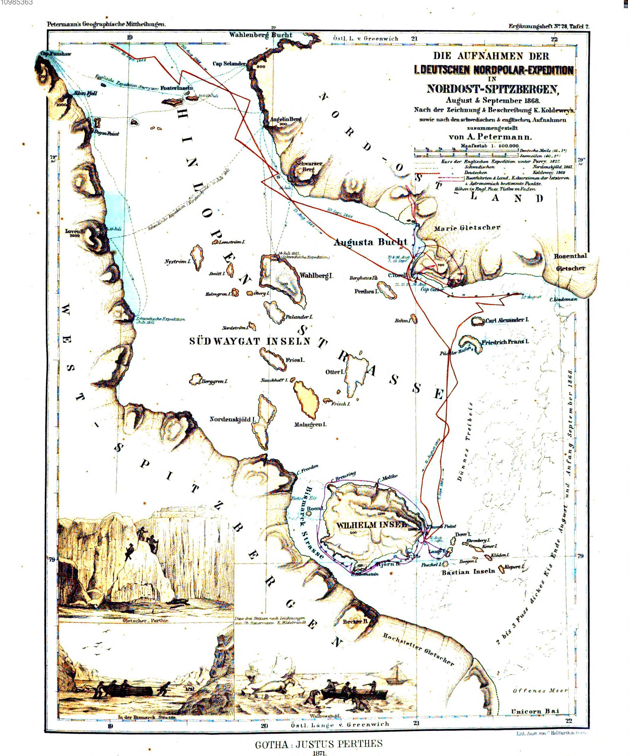 map of southern Hinlopen strait, Spitsbergen, with adjacent islands, from the First German North Polar Expedition